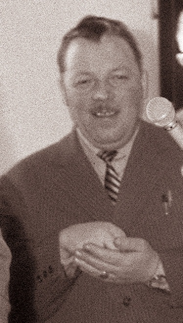 Janez Hribar (1918-1978), Slovene officer